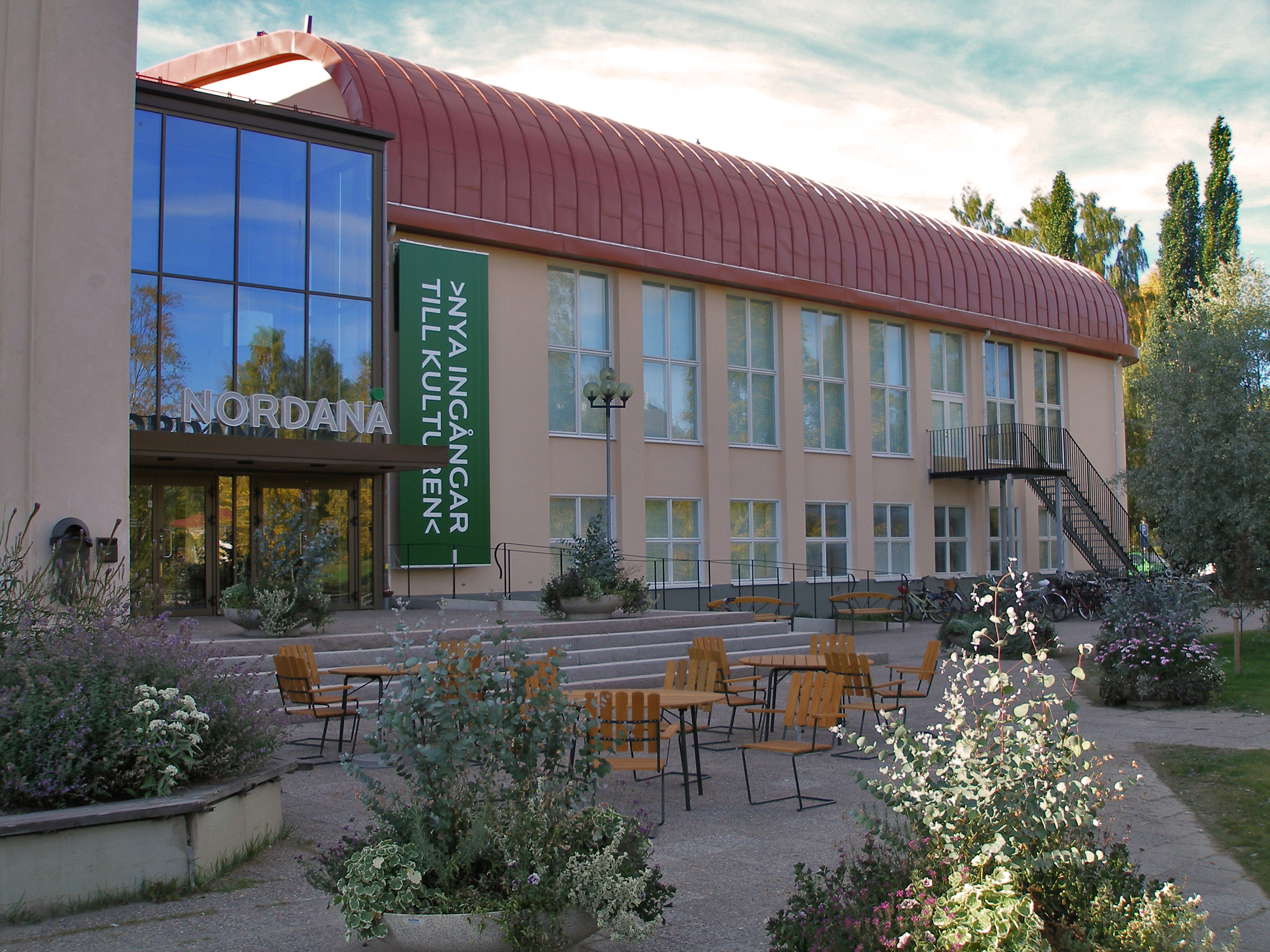 The Nordanå Theater in Skellefteå, Sweden.